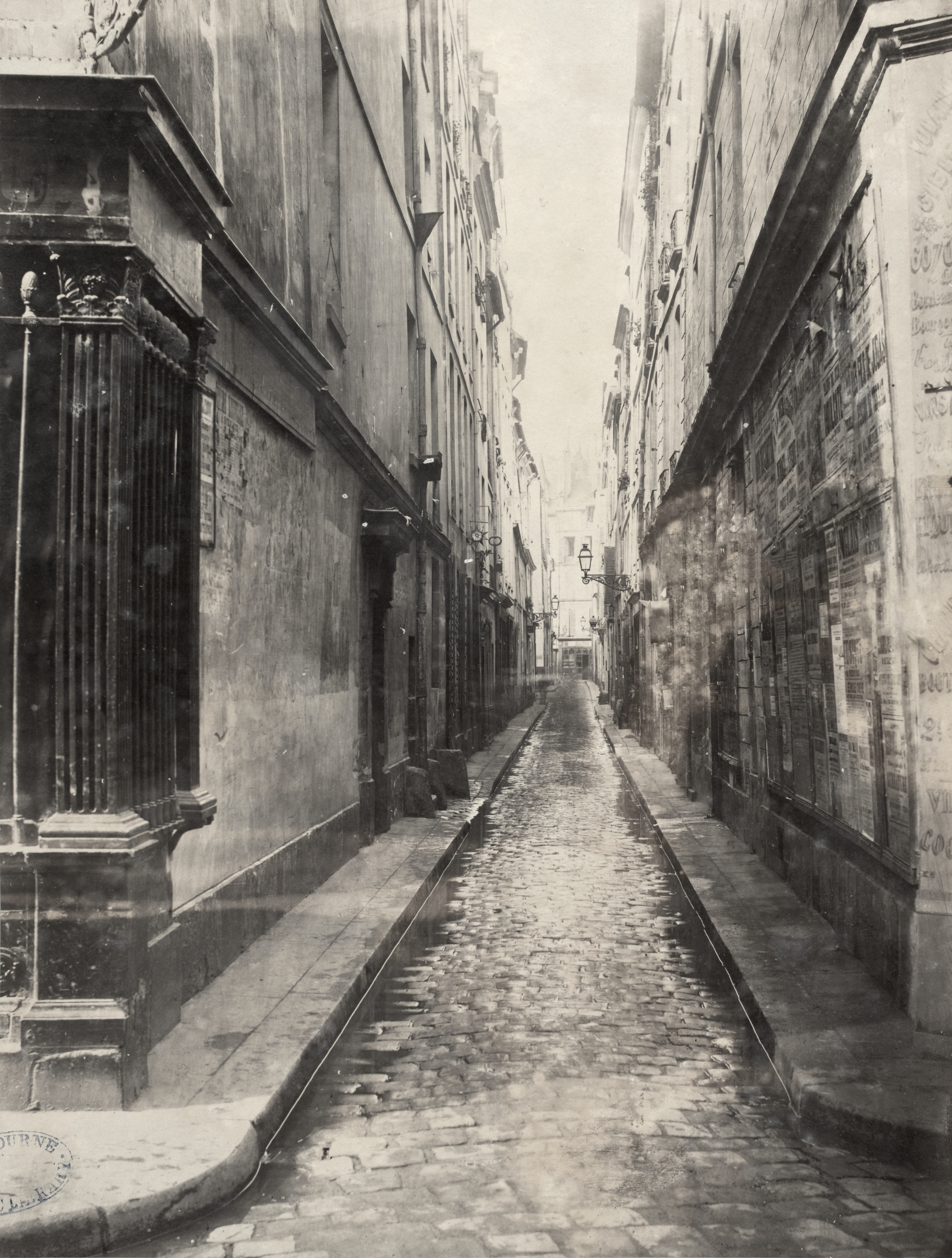 Looking along narrow street with buildings opening onto narrow paths.